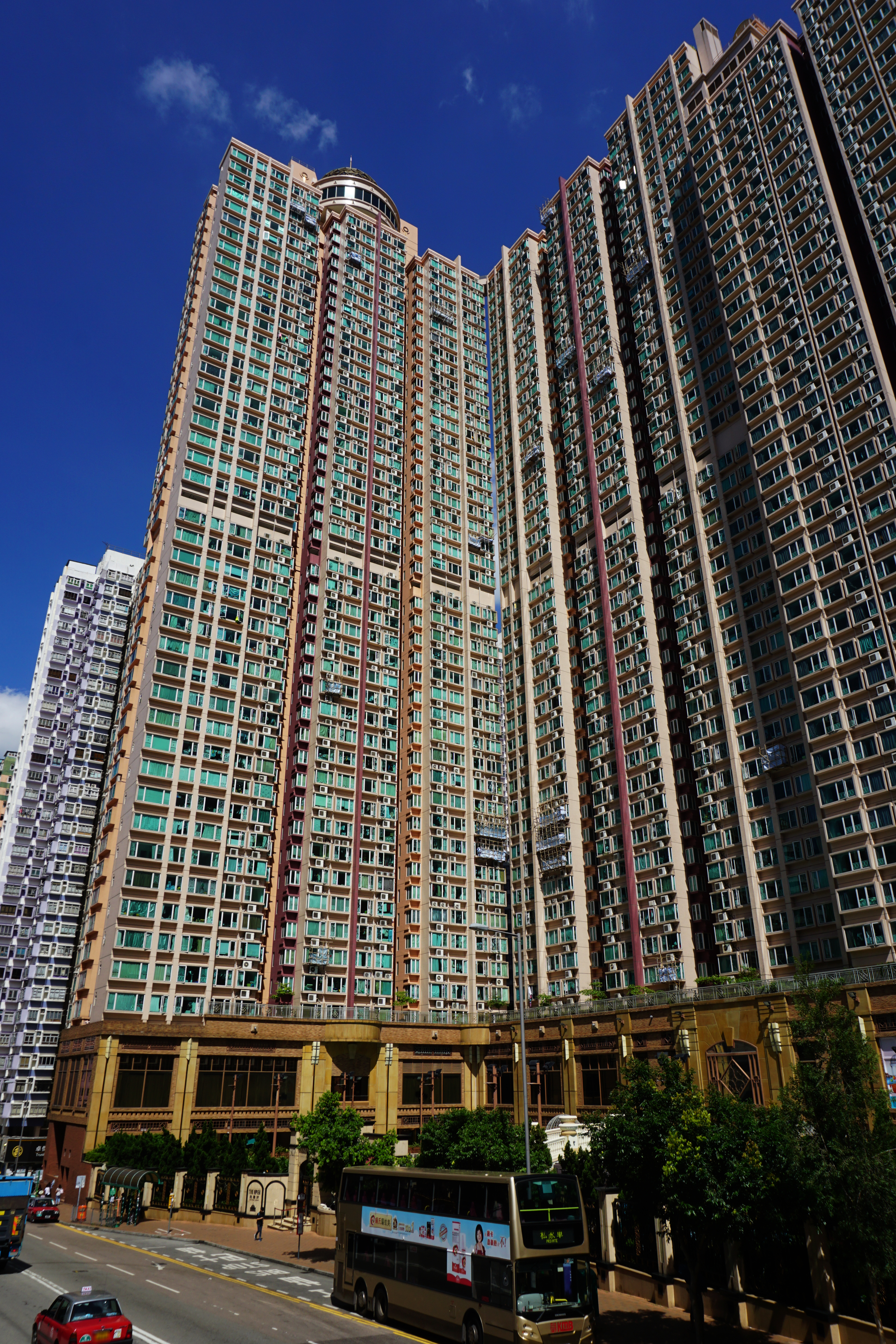 The Apex in Kwai Chung, Hong Kong.